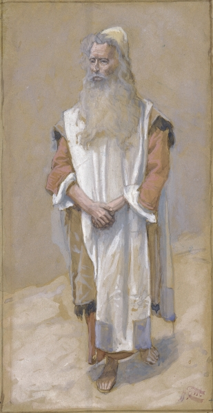 Moses, c. 1896-1902, by James Jacques Joseph Tissot (French, 1836-1902), gouache on board, 8 3/4 x 4 1/4 in. (22.3 x 10.8 cm), at the Jewish Museum, New York